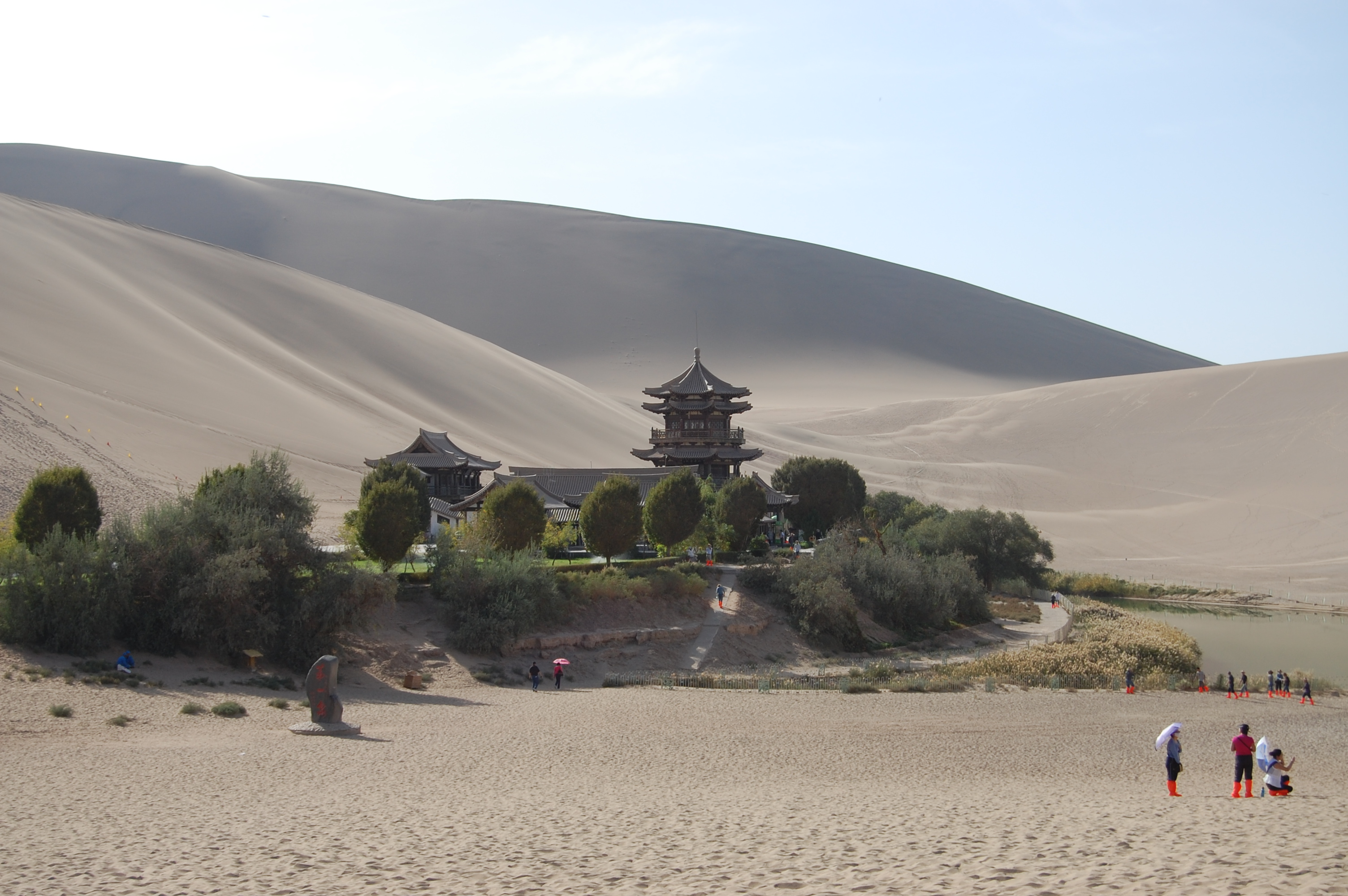 Crescent Lake in Gobi Desert near Dunhuang, Gansu Province, China